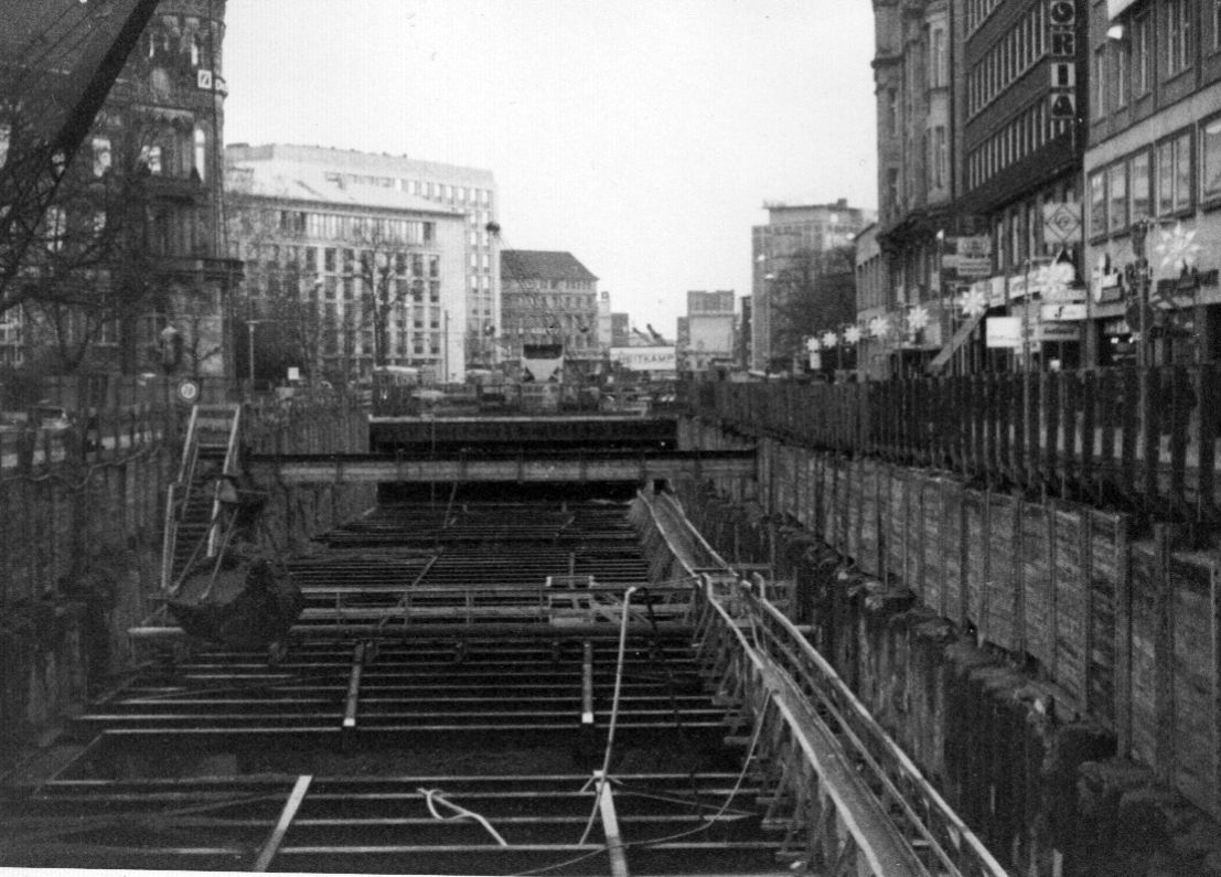 Georgstraße in Hannover, Germany.